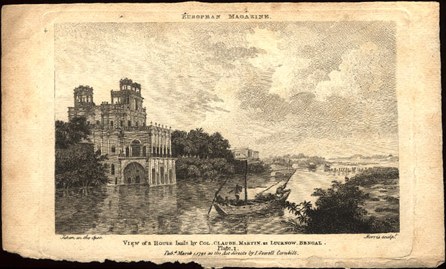 This is General Claude Martin's house built before his palace of Constantia